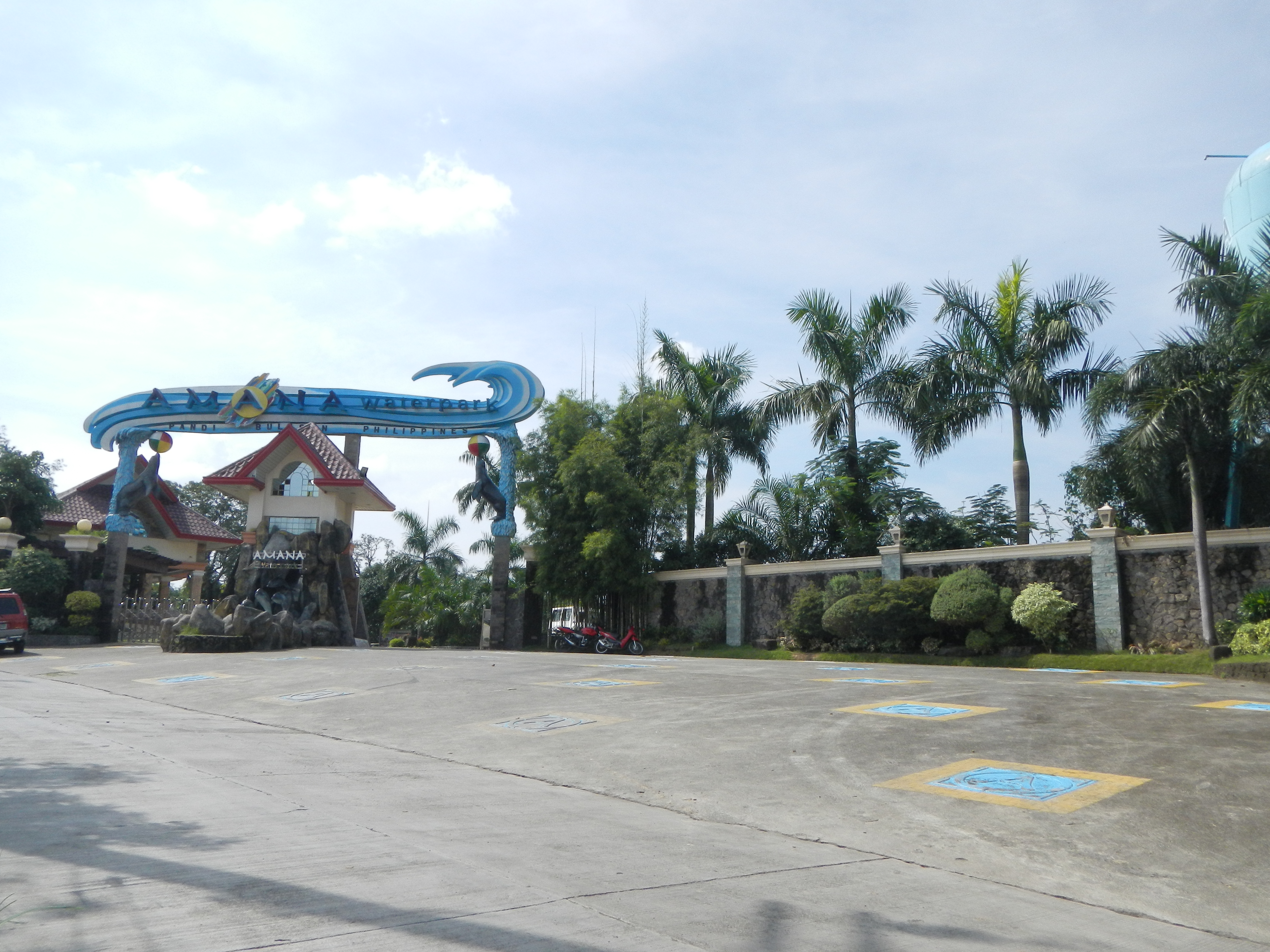 Amana Waterpark Philippines (Pandi, Bulacan)[1] 3225 Santisima Trinidad St. Bagong Barrio, [2] Pandi, Bulacan[3][4]